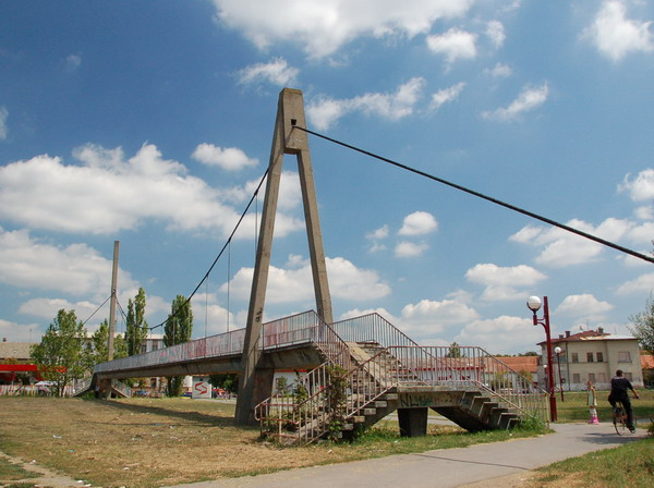 Dry Bridge